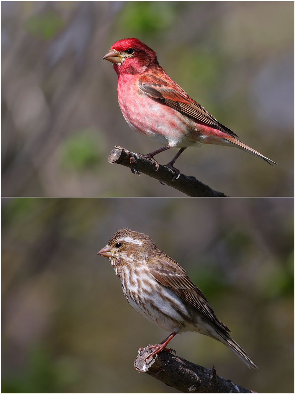 Male and female Carpodacus purpureus, Cap Tourmente National Wildlife Area, Quebec, Canada.